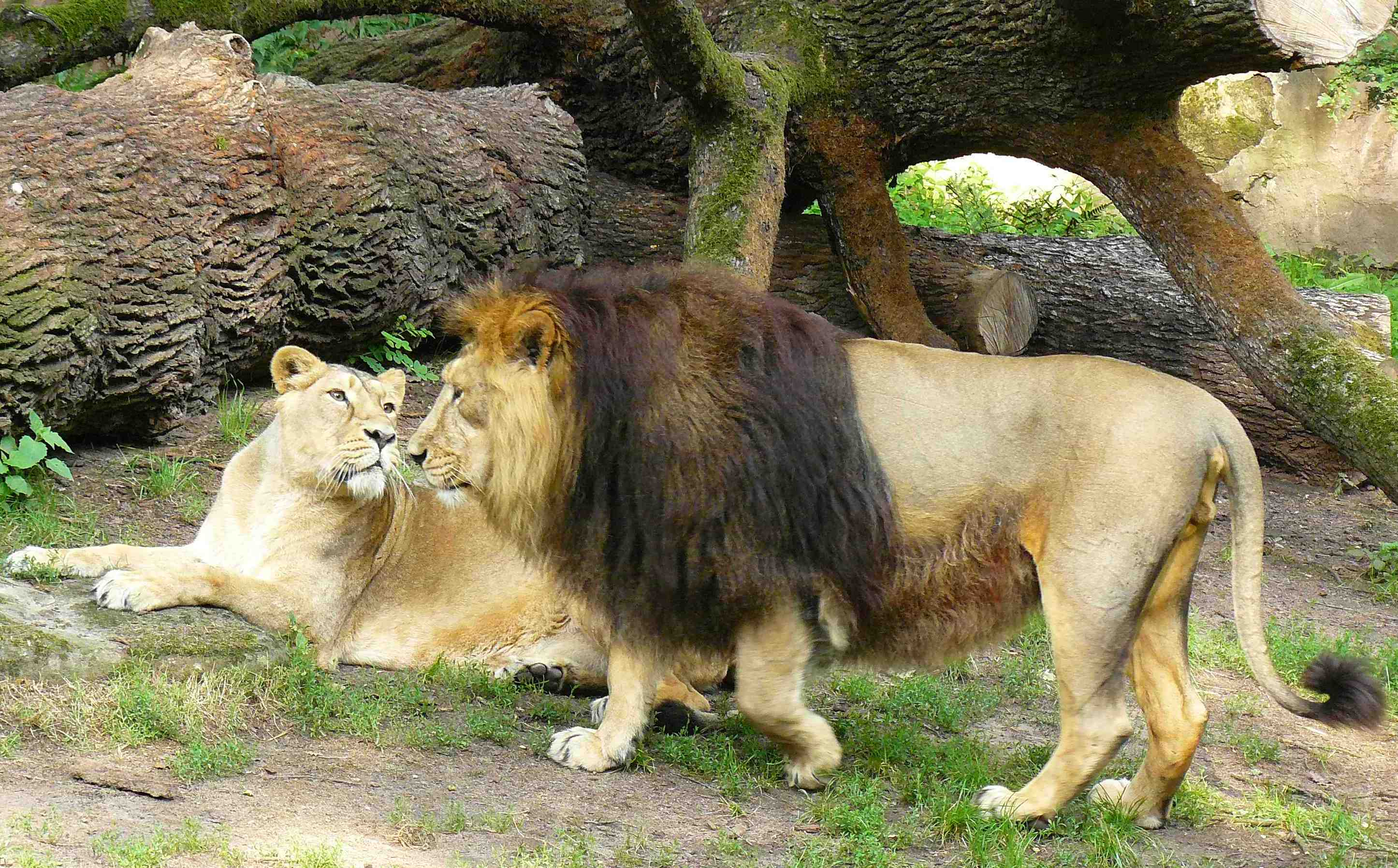 Male and female Asiatic lion (Panthera leo persica) in Tiergarten Nuremberg, Germany.